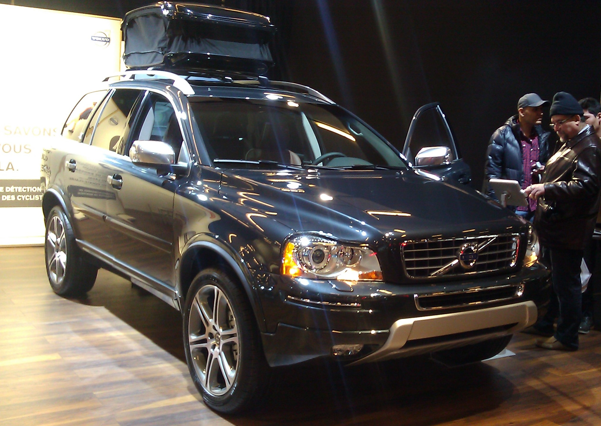 2014 Volvo XC90 photographed in Montreal, Quebec, Canada at the 2014 Montreal International Auto Show.